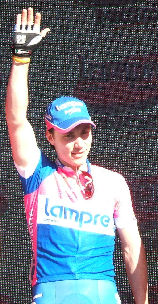 Named cyclist at the en:2009 Tour Down Under team presentation